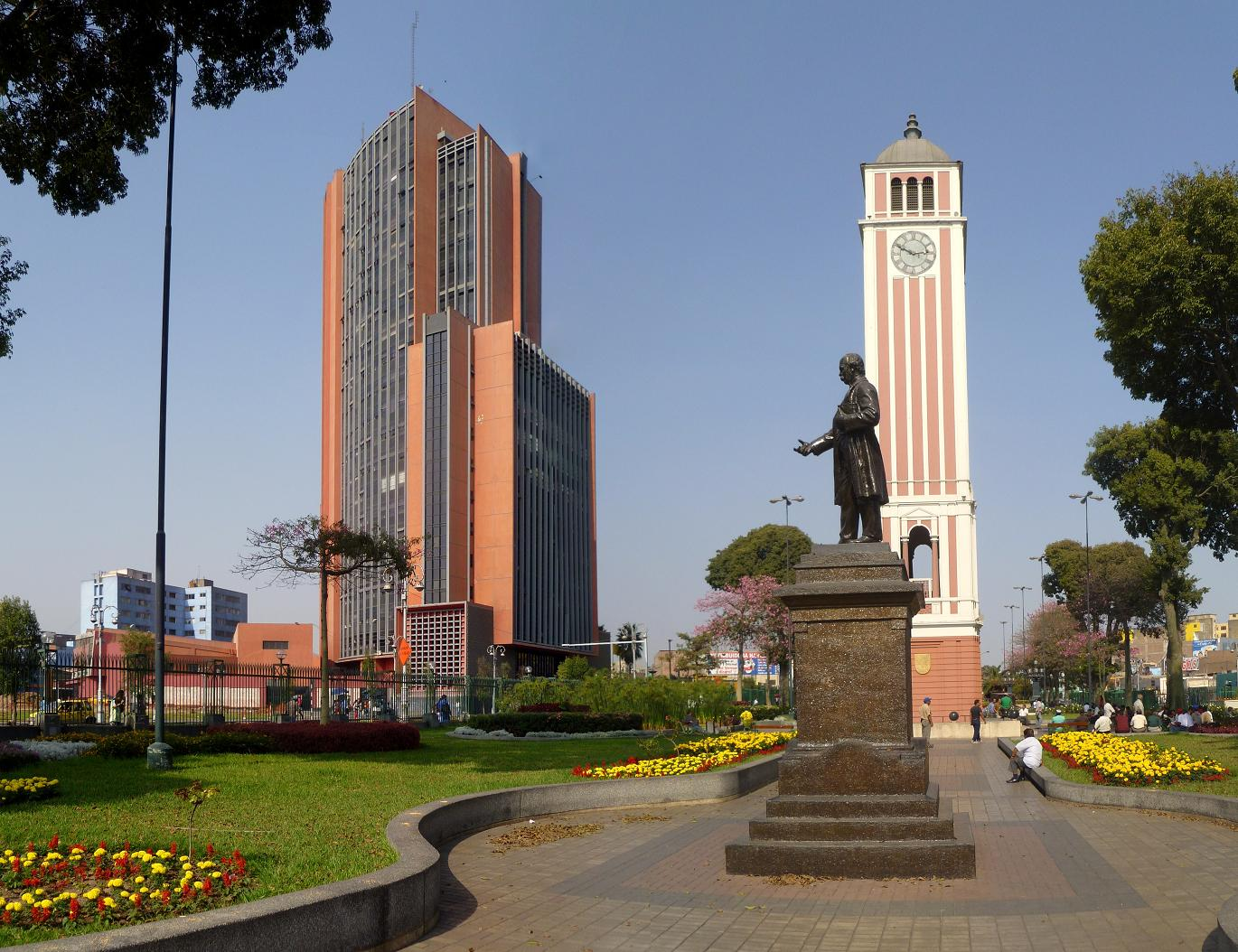 Parque Universitario, Lima, Peru